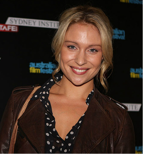 Actress Lisa Gormley the Australian Film Festival - Randwick Ritz, Sydney, Australia